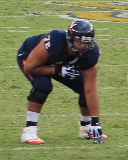 UVA football player Oday Aboushi in 2012